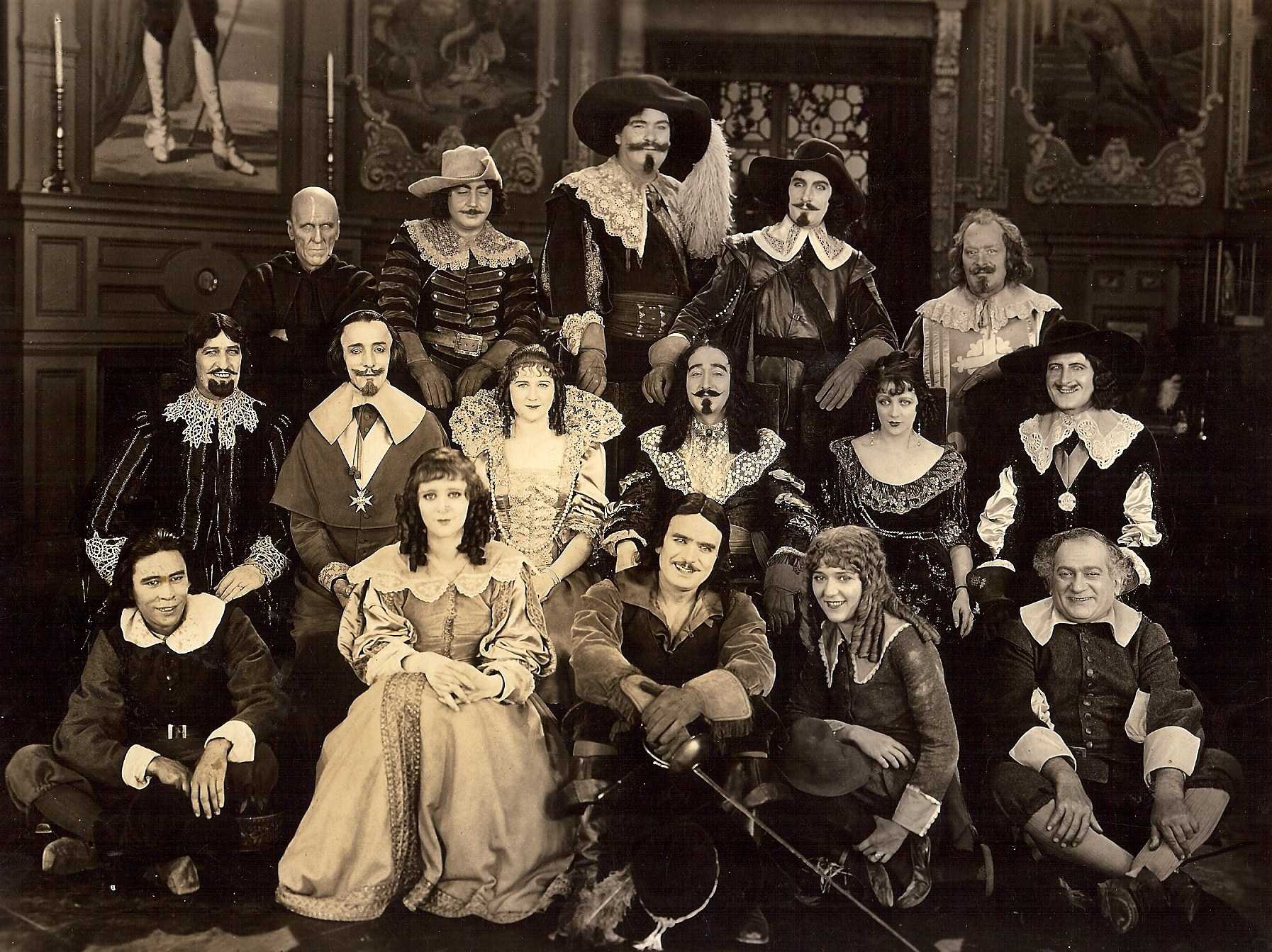 The Three Musketeers - publicity still (original image cropped : see source) - principal cast, left to right : - First rank (bottom) : Charles Stevens (Planchet), Marguerite De La Motte (Constance Bonacieux), Douglas Fairbanks (D'Artagnan), Mary Pickford (guest), and Sidney Franklin (Mr. Bonacieux). - Second rank (middle) : Boyd Irwin (Comte de Rochefort), Nigel De Brulier (Cardinal Richelieu), Mary MacLaren (Queen Anne of Austria), Adolphe Menjou (Louis XIII), Barbara La Marr (Milady De Winter), and Thomas Holding (Duke of Buckingham). - Third rank (top) : Lon Poff (Father Joseph), Eugene Pallette (Aramis), George Siegmann (Porthos), Léon Bary (Athos), and Willis Robards (Captain de Treville)